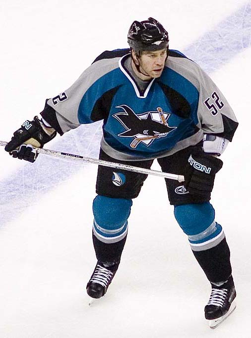 Craig Rivet, Columbus Blue Jackets vs. San Jose Sharks 3/16/2007